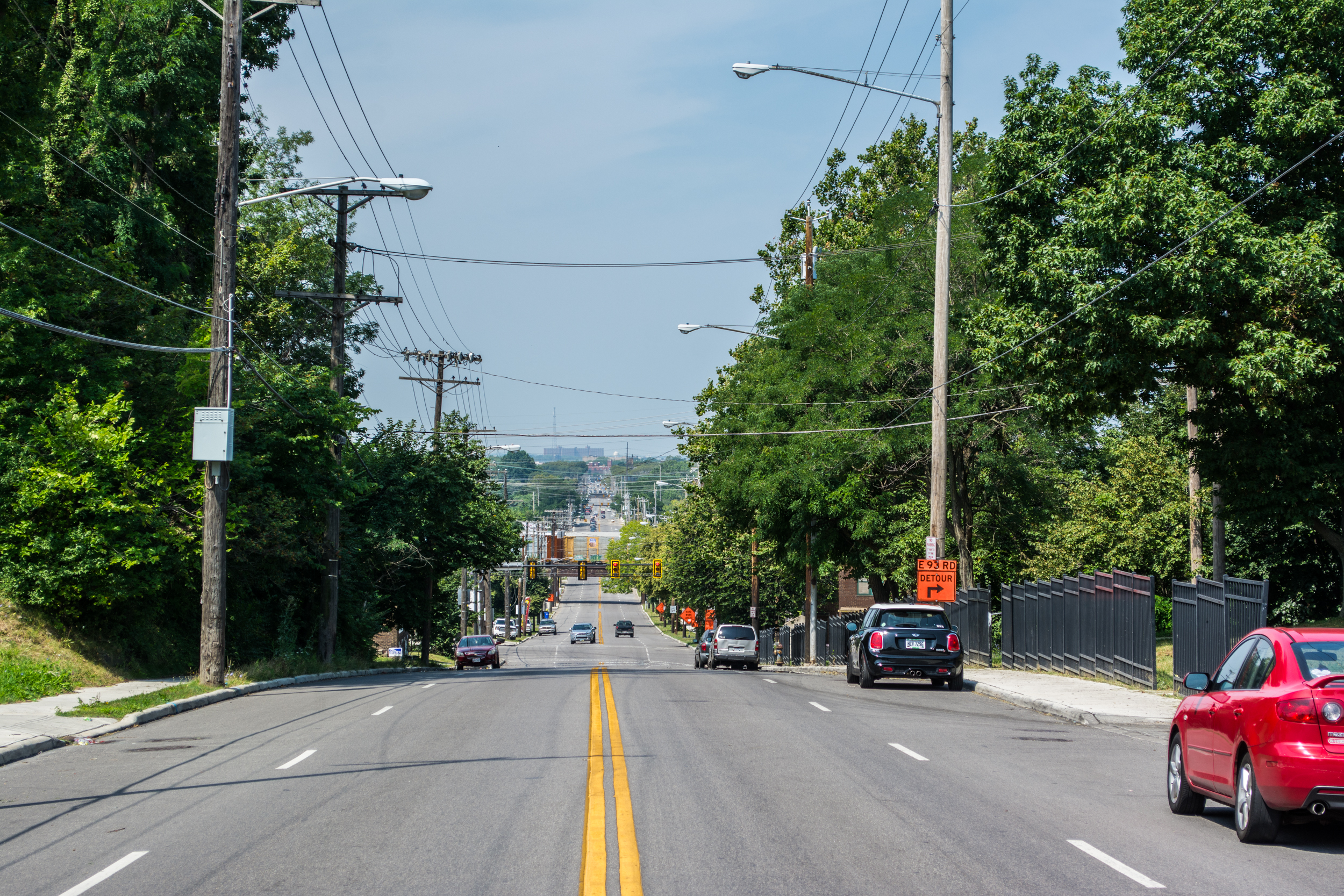 Standing at about E. 110th Street, looking west down Woodland Avenue in Cleveland, Ohio, in the United States. The photographer is standing atop the Portage Escarpment. The view shows how high the escarpment rises above the Erie Plain below.